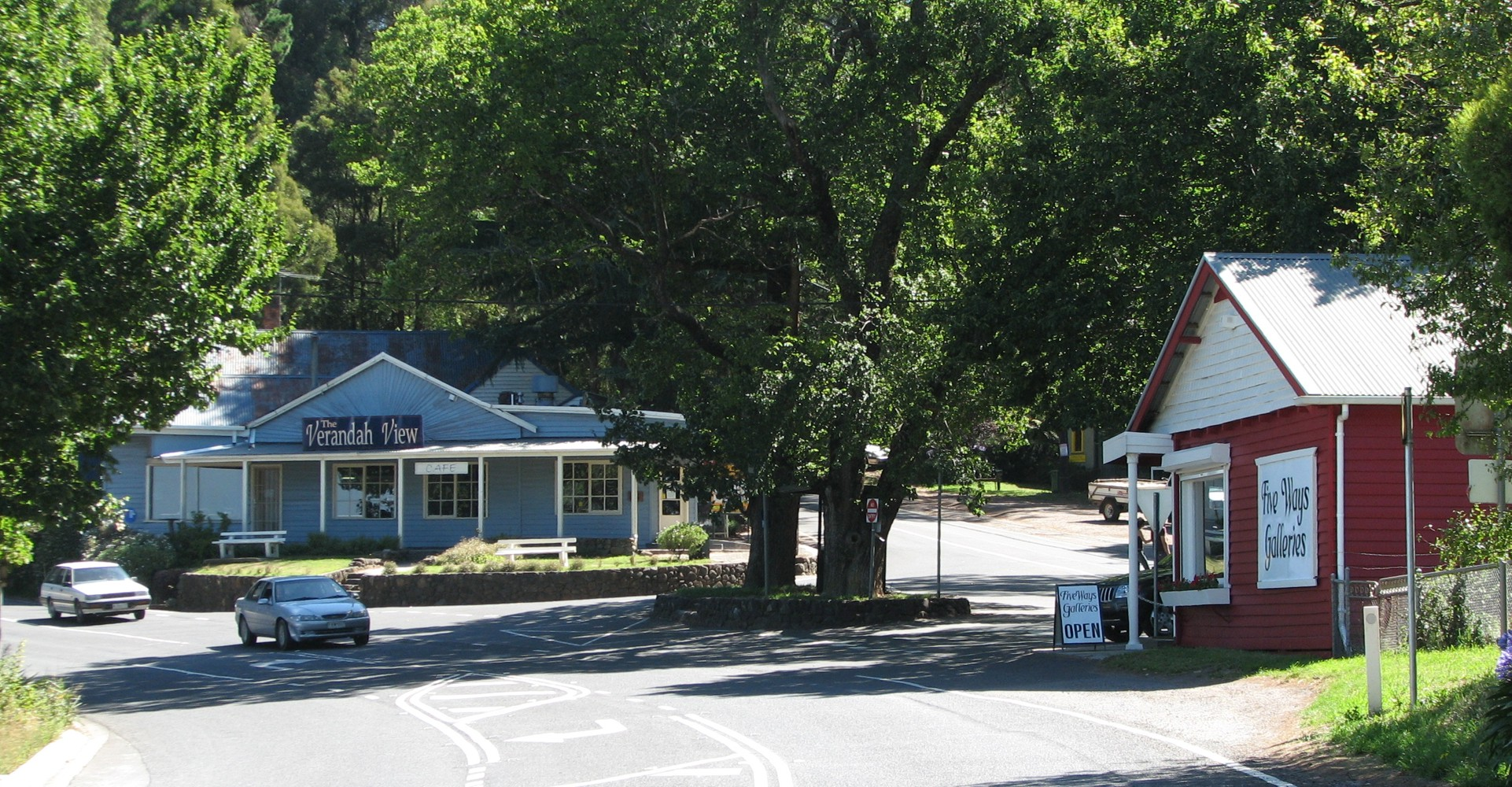 Five Ways, Kalorama, Victoria, Australia